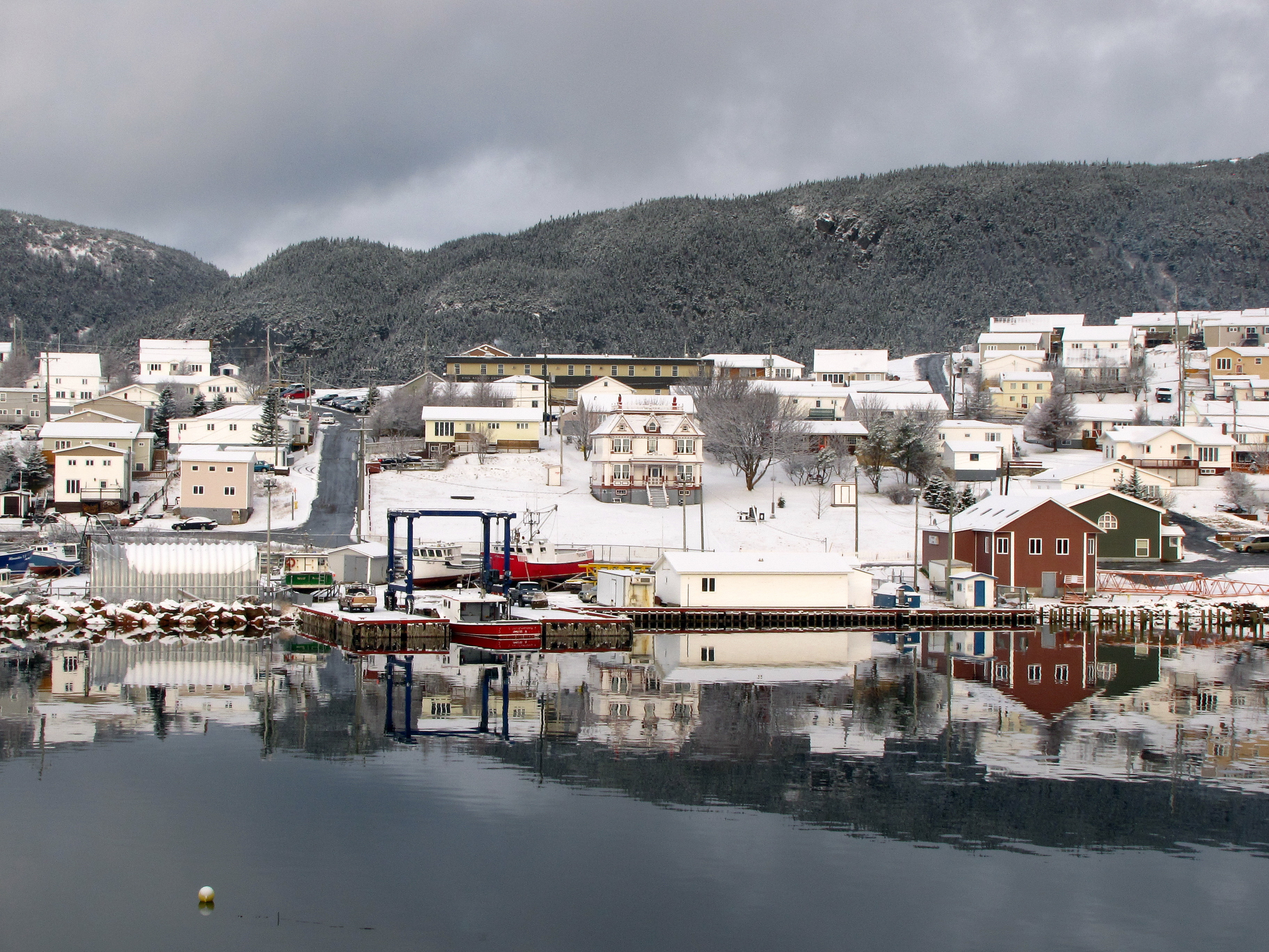 Harbour Breton in Winter The frozen world brooded in lonely silence, waiting for warmer days.(Harbour Breton,North Side)